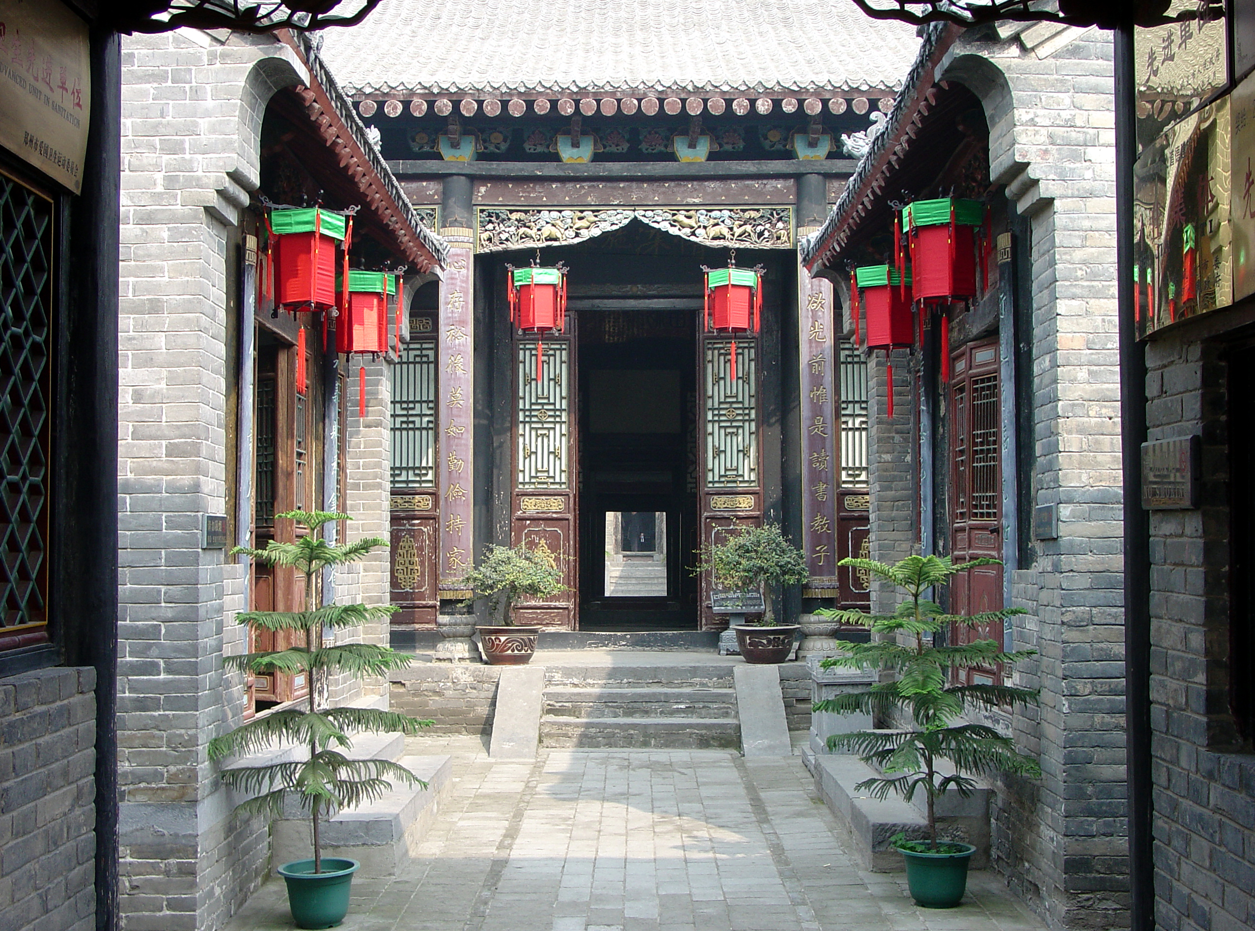 Kangbaiwan Manor. Gongyi, Henan "Millionaire Kang's Residence" belonged to a rich merchant family during the Qing dynasty. The extensive walled manor, with its numerous passageways, courtyards, and rooms, was occupied by twelve generations of the Kang family and is a fascinating glimpse into a real-world version of the privileged lifestyle shown in movies like "Raise The Red Lantern." Gongyi is located about 50mi (80km) west of Zhengzhou, between Zhengzhou and Louyang.